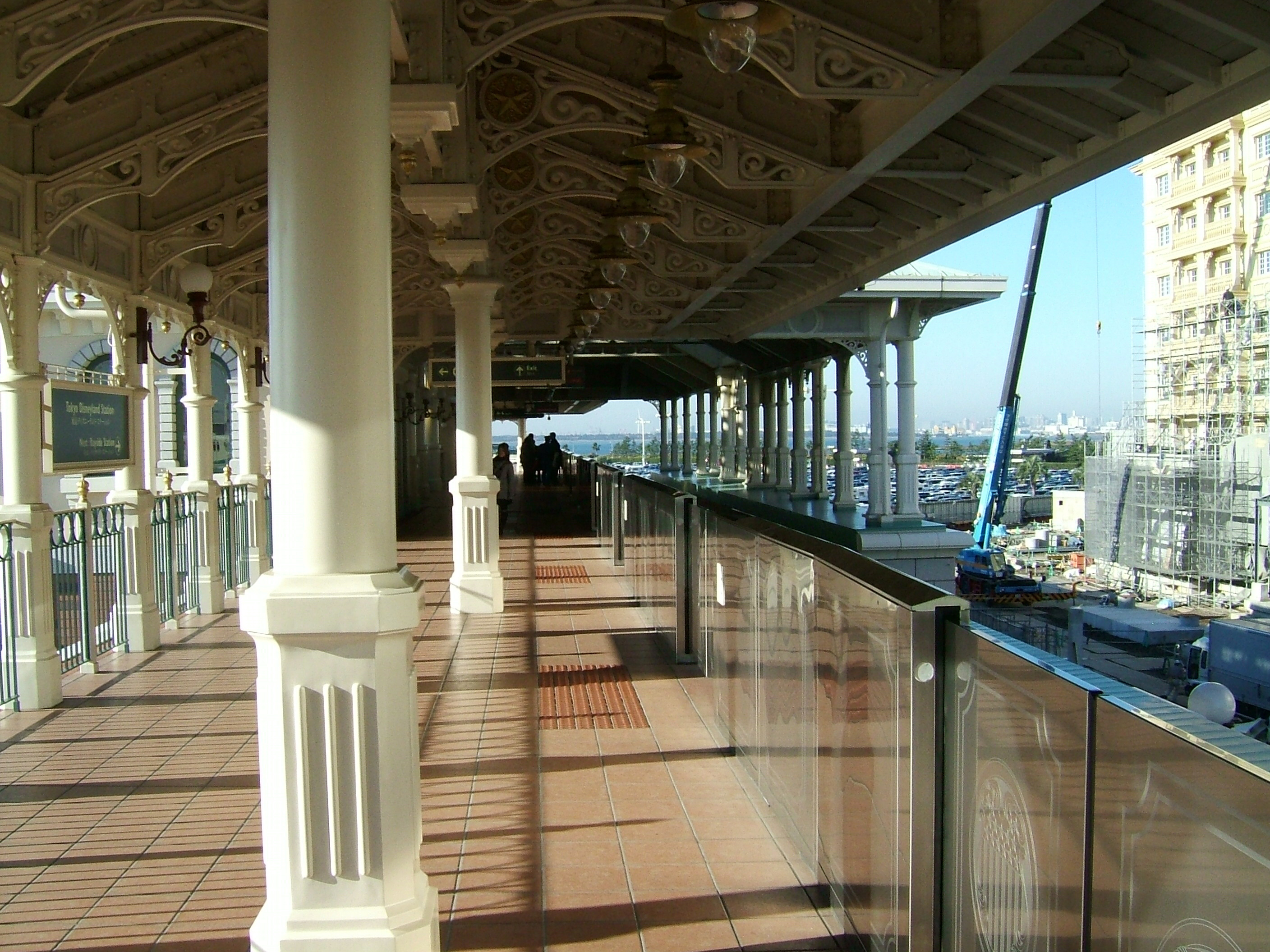 The platform at Tokyo Disneyland Station(Maihama Resort Line Disney Resort Line)